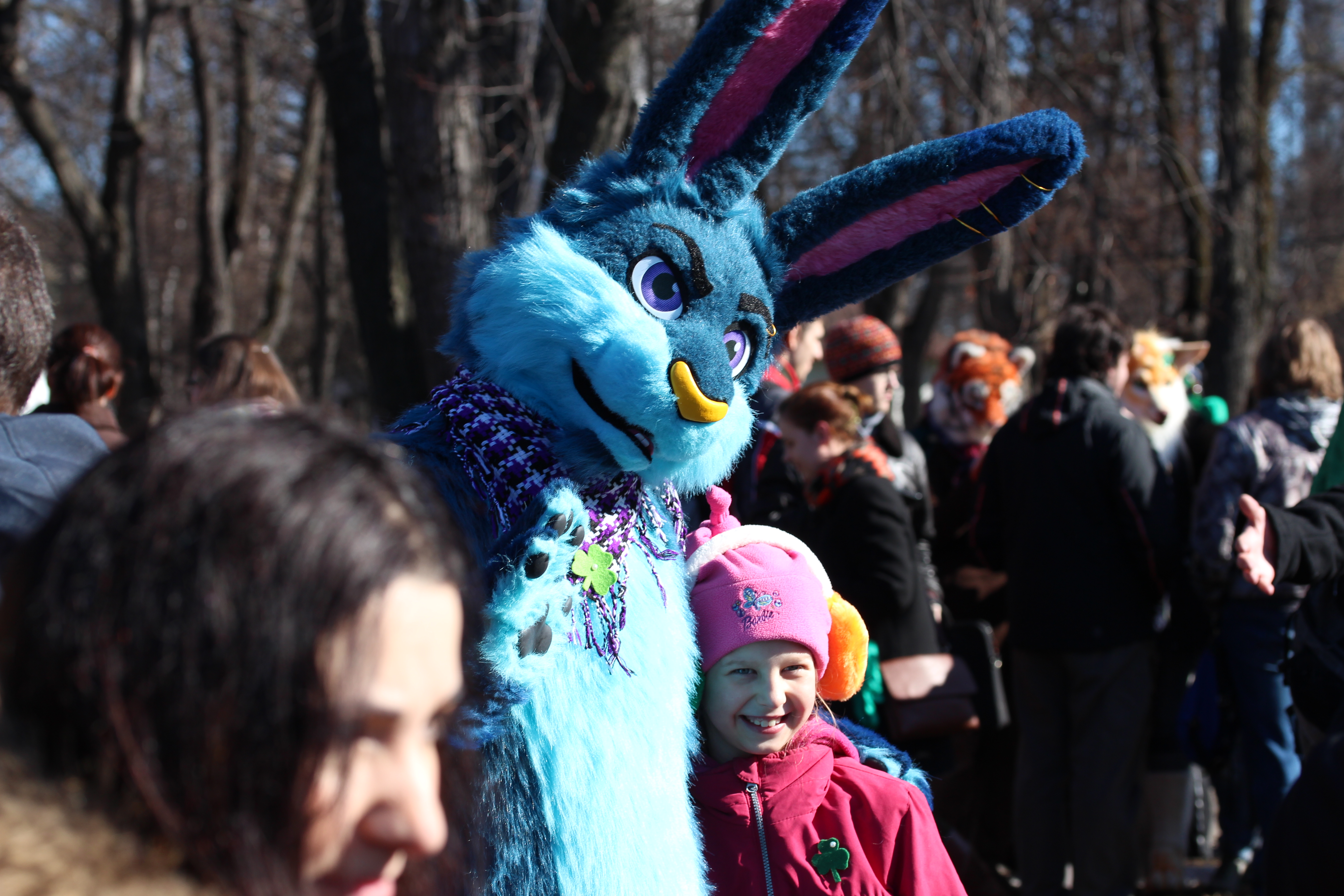 14 March 2015, Moscow